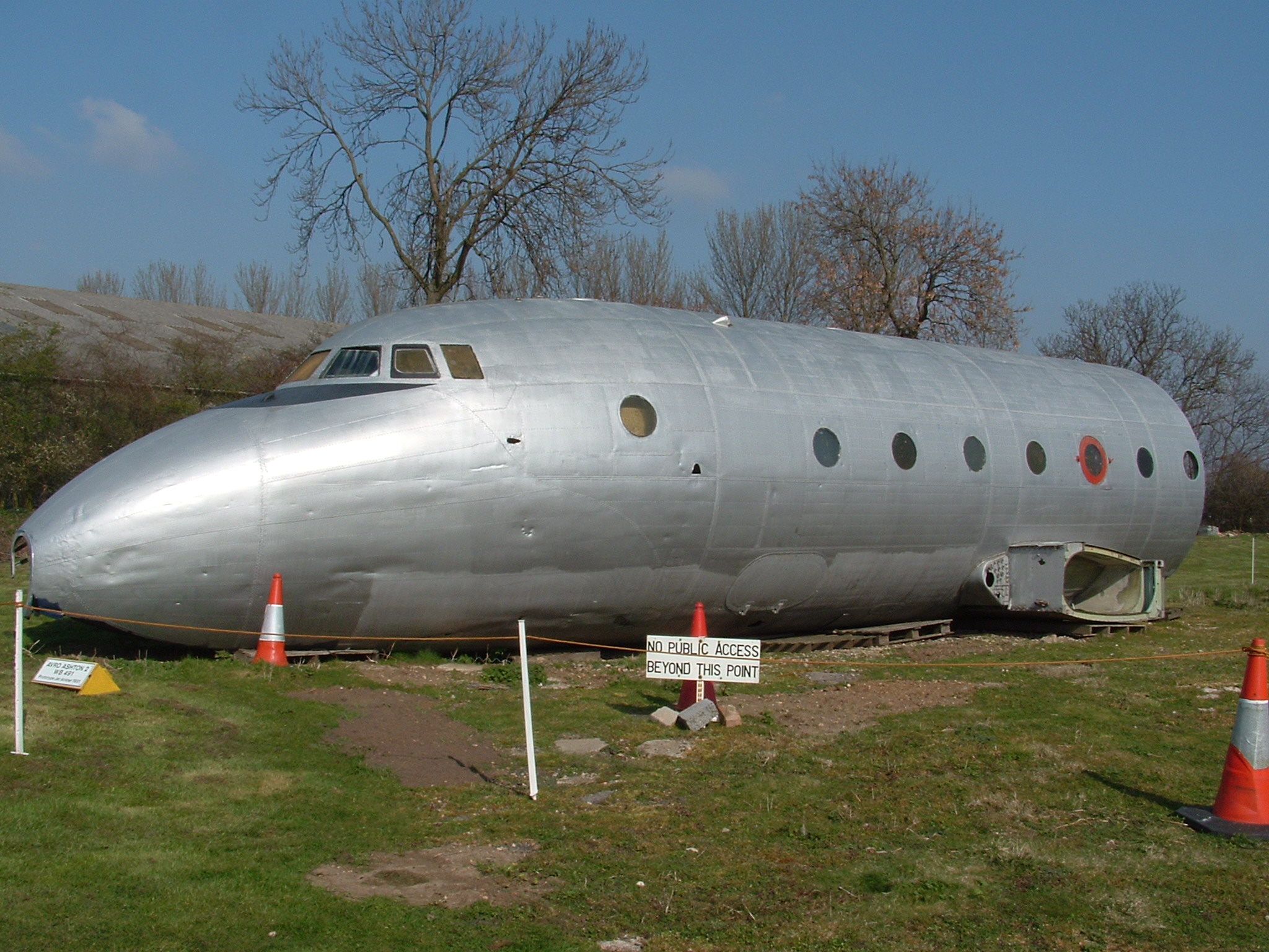 Avro Ashton at the Newark Air Museum